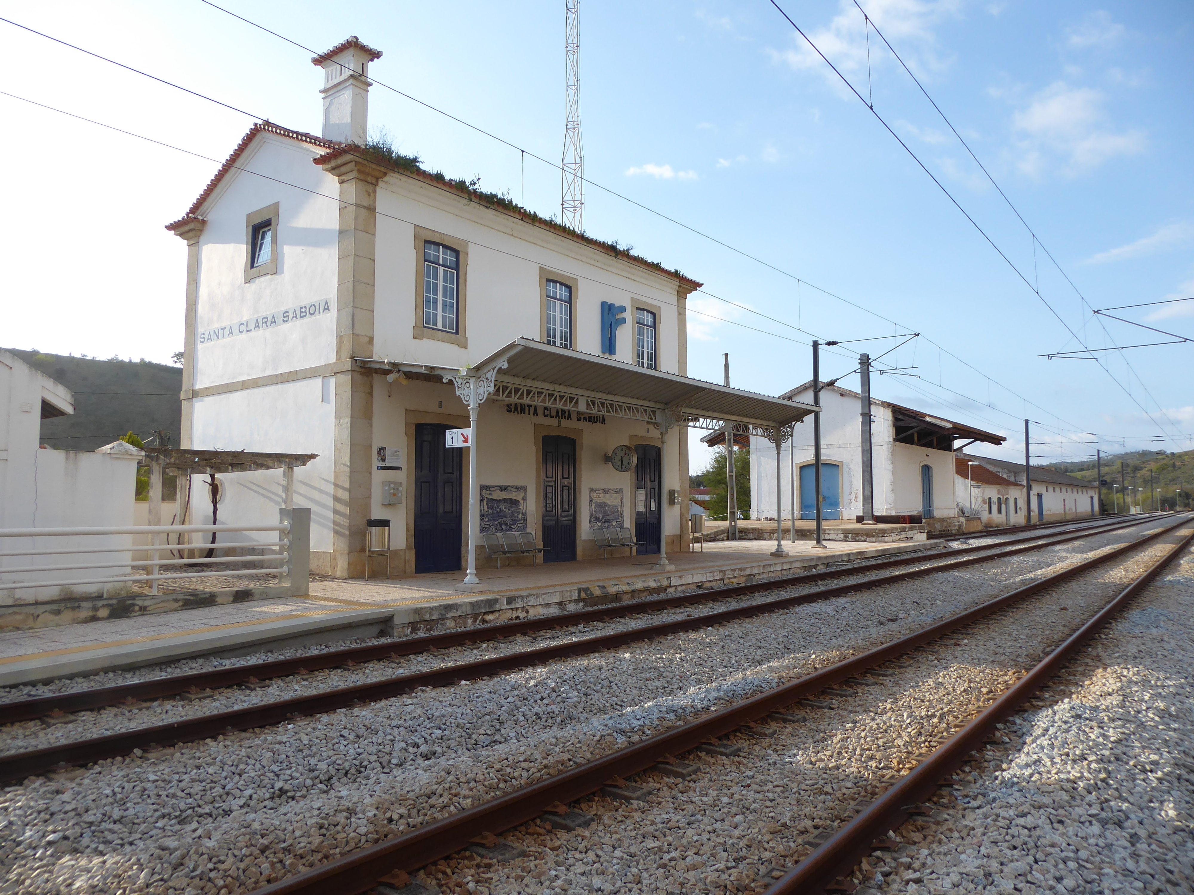 Santa Clara-Saboia train station, Portugal